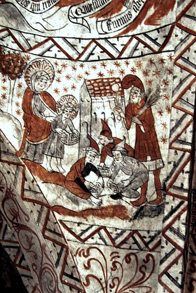 Frescoes by The Isefjord Master from apr. 1460-1480 in Tuse Kirke (church)